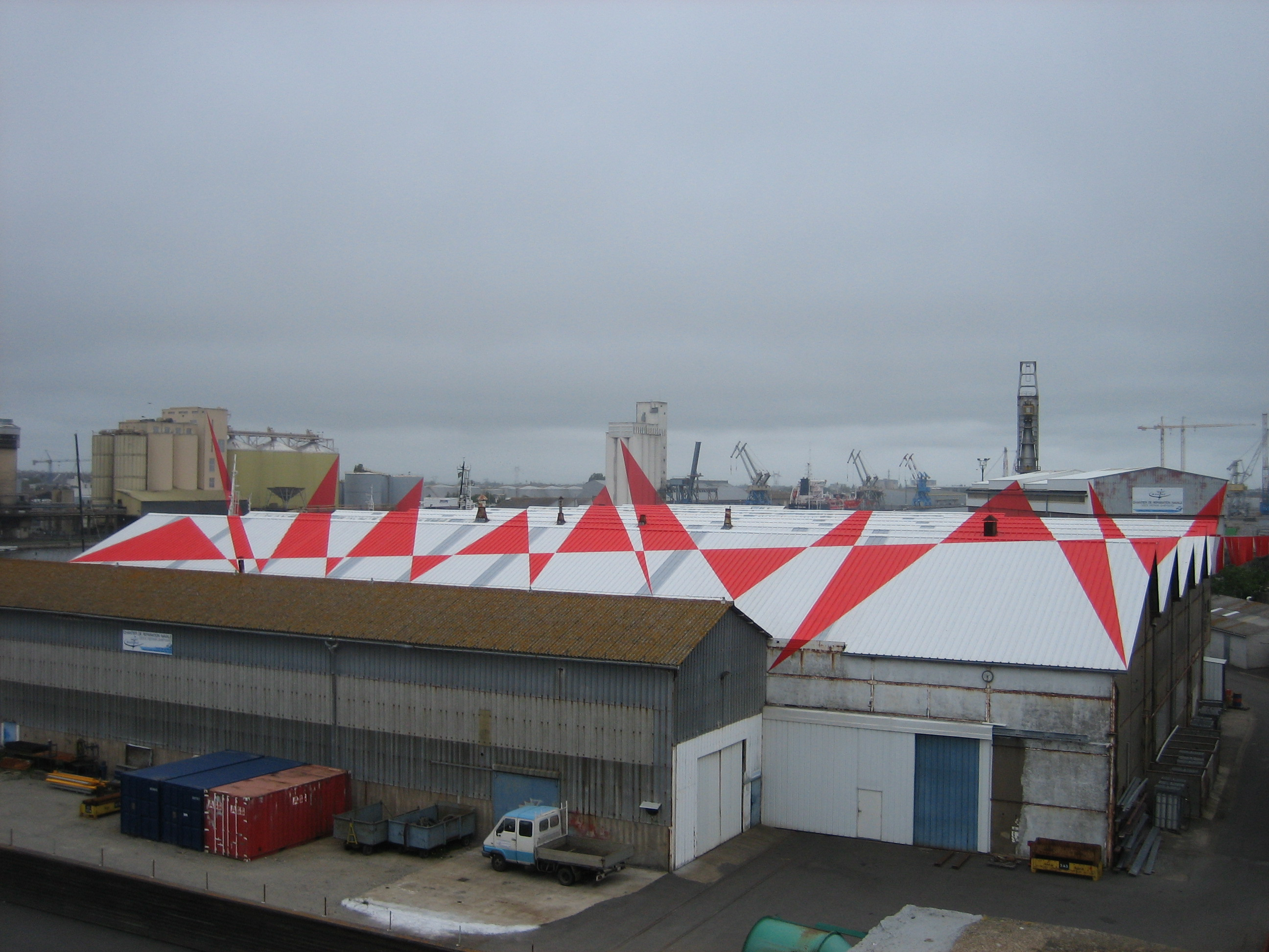 In the harbour of St-Nazaire (France, near Nantes), 2km of triangles painted on the architecture by Felice Varini. For the exhibition "Estuaire 2007".